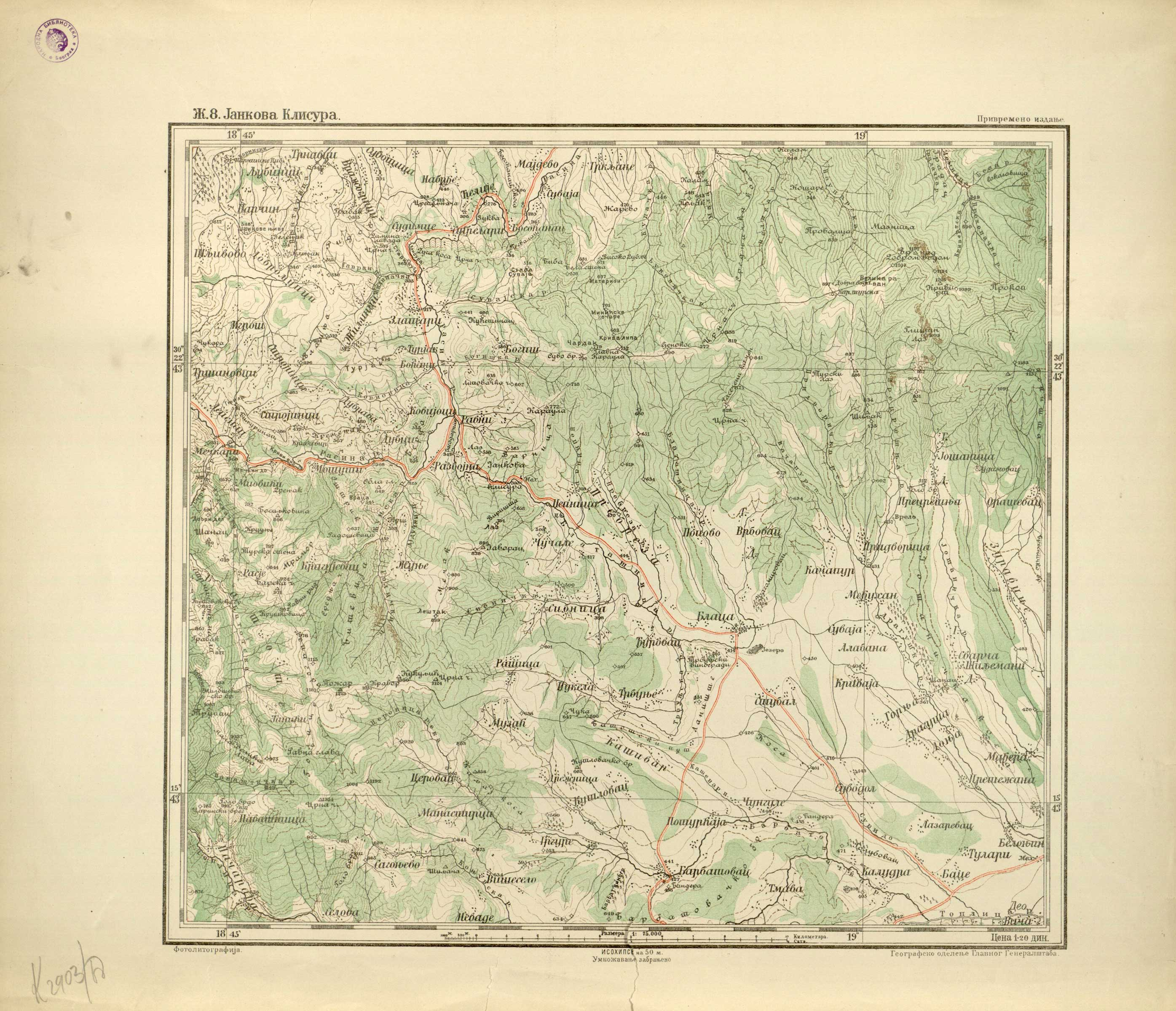 Digital copies of the Đeneralštabna map of Serbia. The map is printed in Belgrade, the 1894th , in 94 sections, with a topographic key and in scale 1:75.000. This is the first special military map of Serbia was published in the country.